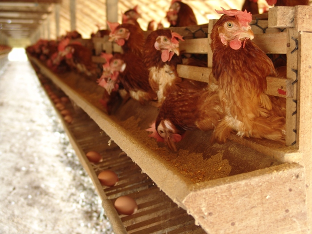 Chicken farm